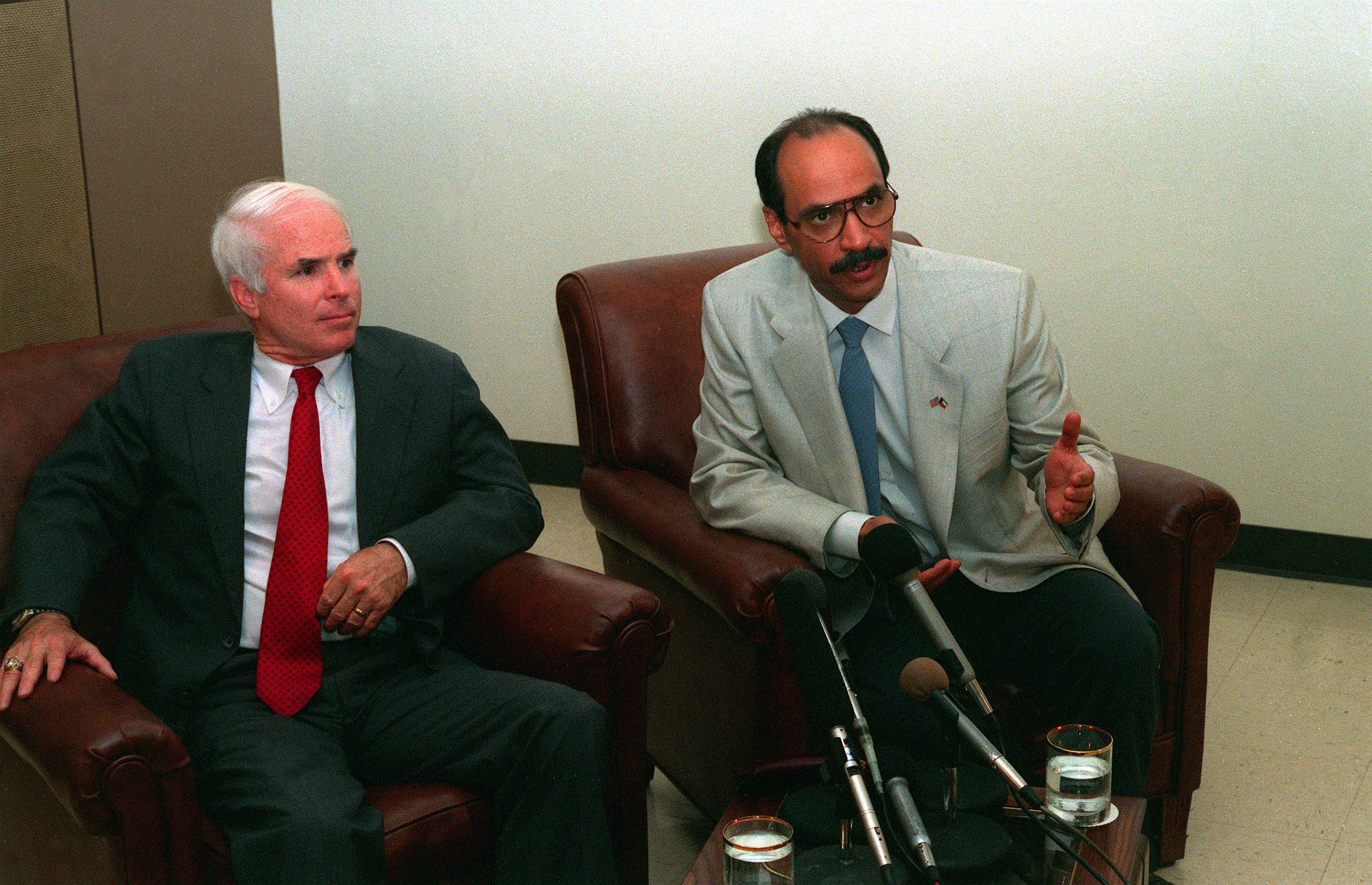 Sheikh Saud Nasir Al Sabah, third from right, Kuwait's ambassador to the U.S., answers a question during a press conference as Sen. John McCain of Arizona listens. Al Sabah has come to Davis-Monthan to thank the base's personnel for their role in Operation Desert Shield and Operation Desert Storm, which liberated Kuwait from its Iraqi invaders. Flanking Al Sabah and McCain are COL. Joe Greene, left, and COL. Glyn Burleson, right, 4/11/1991